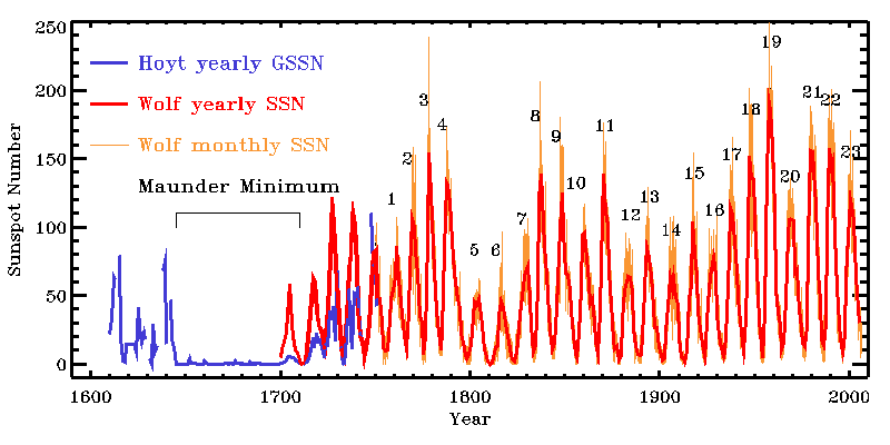 The solar cycle, as seen in variations of the sunspot number index. Three historical reconstruction are shown, namely the monthly sunspot number (orange), and yearly sunspot number (red), and, from 1610 to 1750, the Group sunspot number (green), generally deemed a more reliable reconstruction over this time interval.